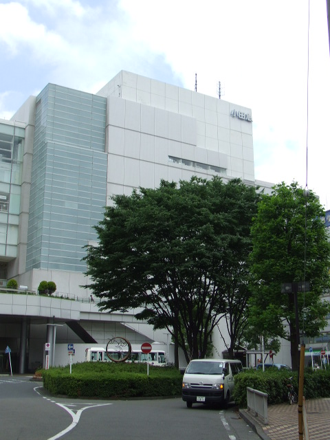 Building of 〝Sagami-Ono Station Square A〟,Sagamihara, Kanagawa, Japan